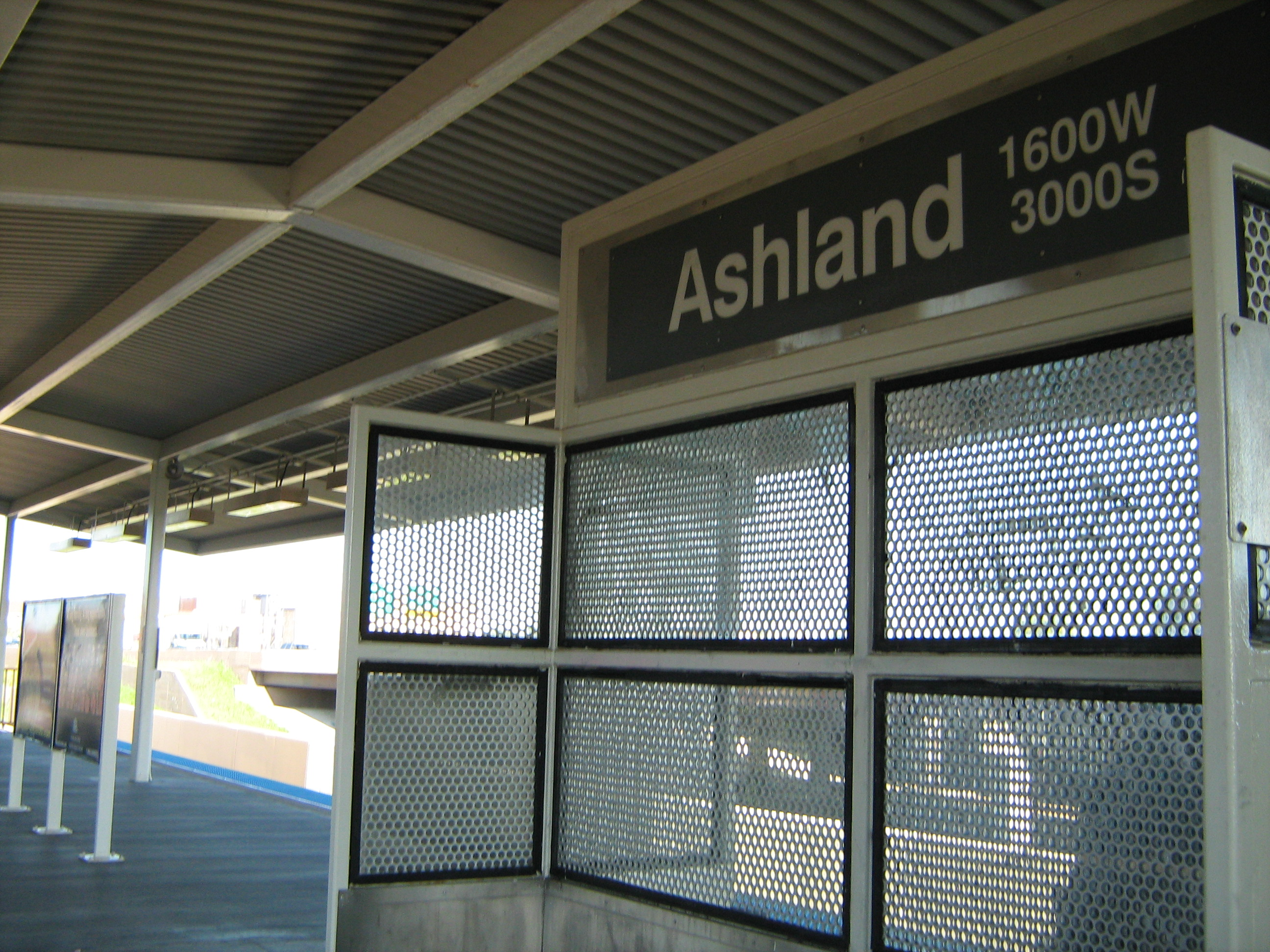 Ashland CTA Orange Line Station